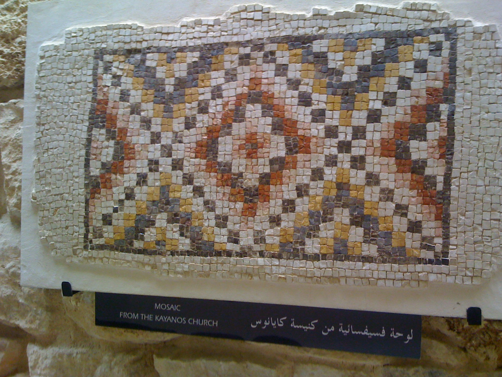 Mosaic from Kayanos church